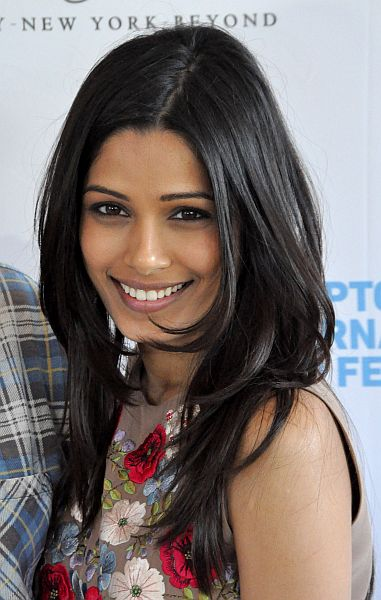 Actress Freida Pinto attends 18th Annual Hamptons International Film Festival Chairman's Reception.